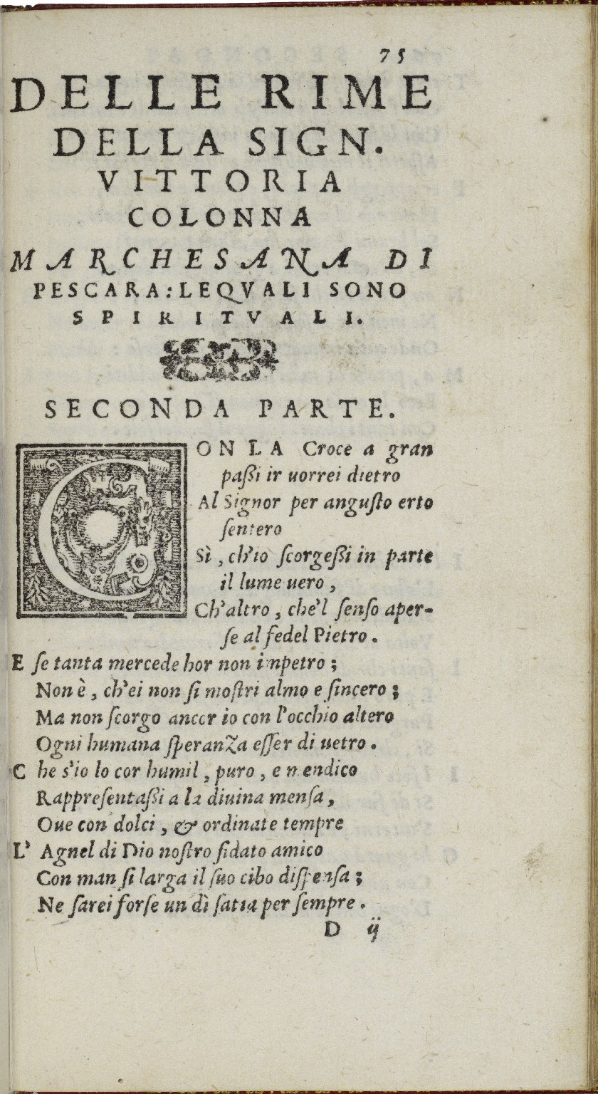 The title page for a 1559 edition of Vittoria Colonna's poems.